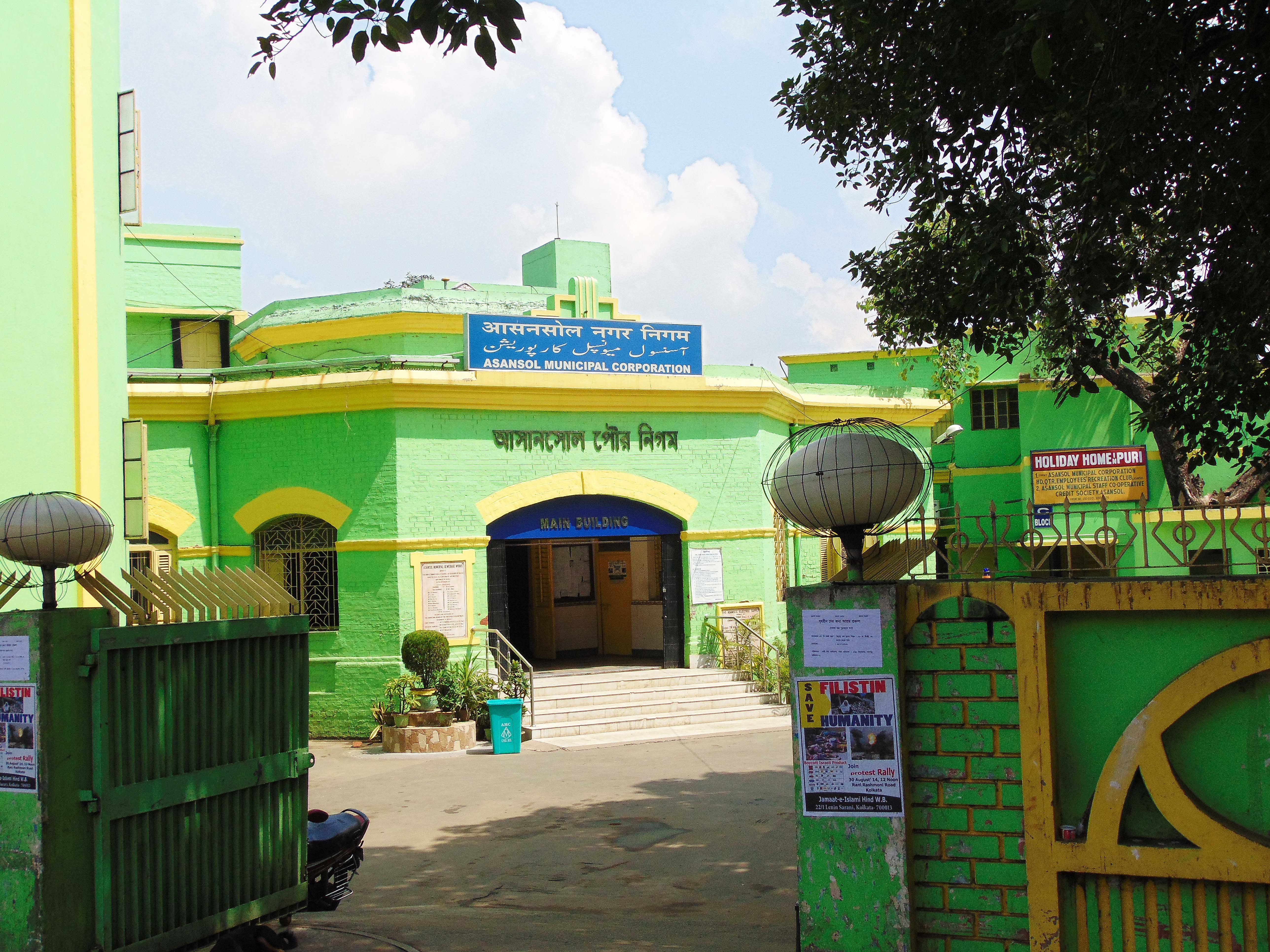 Asansol Municipal Corporation